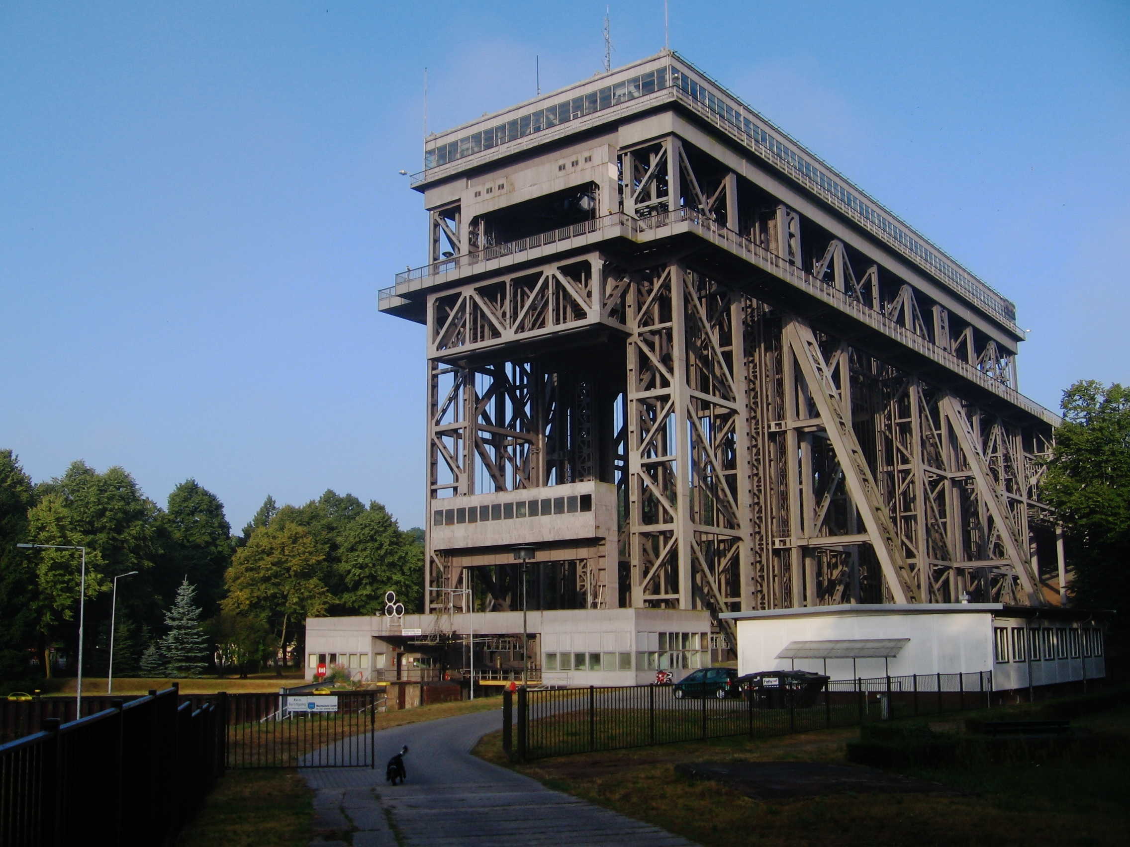 the boat lift Niederfinow (seen from northeast)